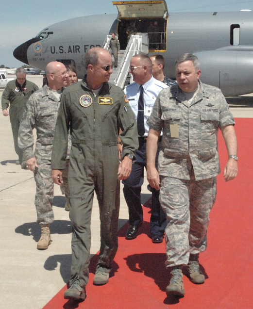 GRISSOM AIR RESERVE BASE, Ind., -- Gen. Kevin Chilton (left) Commander, U.S. Strategic Command, and Brig. Gen. Dean Despinoy, Commander, 434th Air Refueling Wing, discuss business as they walk down the red carpet at Grissom ARB. General Chilton visited Grissom during a recent Unit Training Assembly (U.S. photo illustration/Senior Airman Carl Berry)